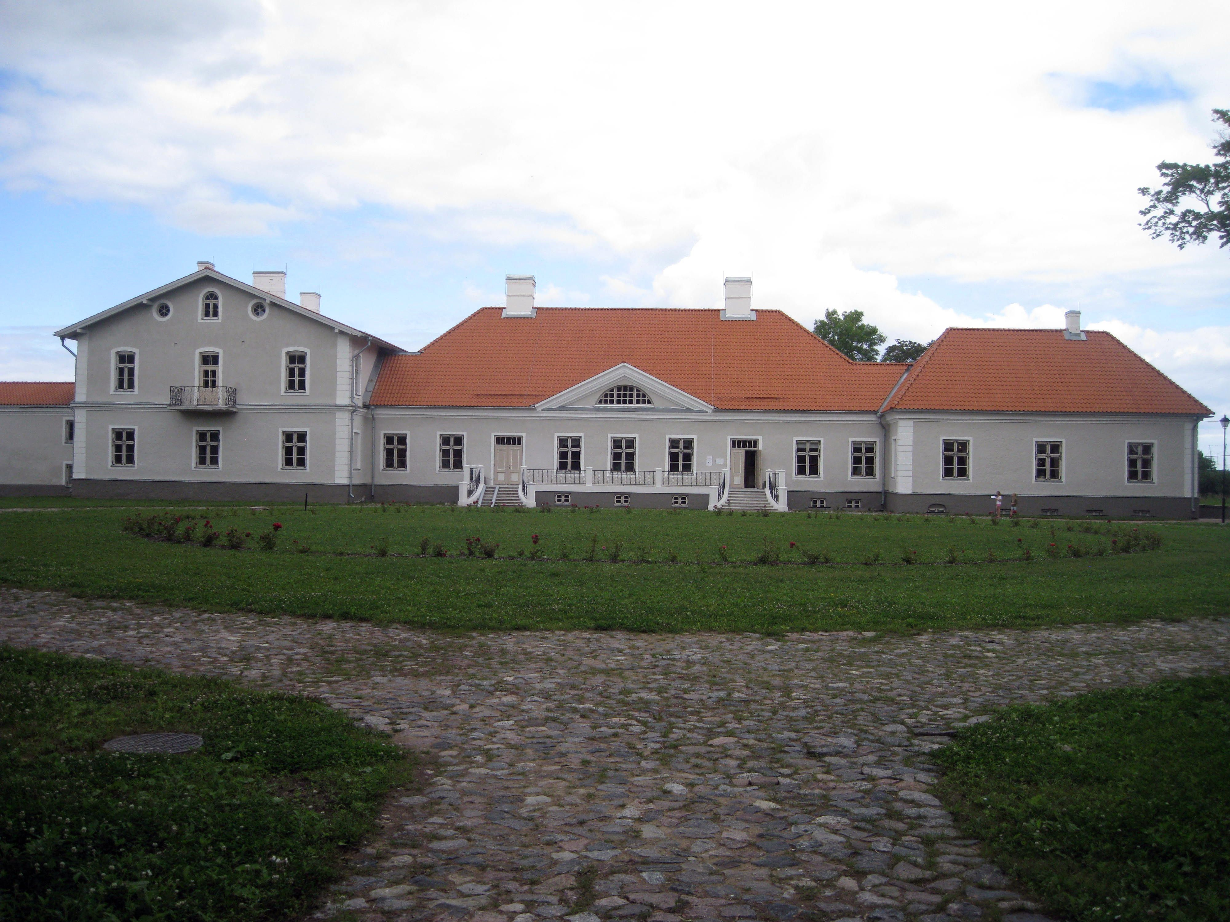 Kukruse manor in Kohtla, Ida-Virumaa, Estonia